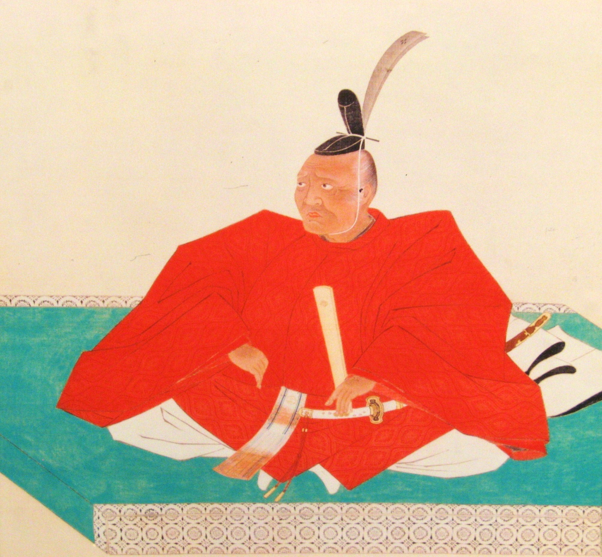 Portrait of Inaba Masanari, owned by Kanagawa Prefectural Museum